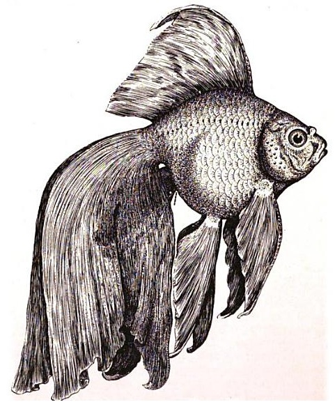 Barrett's original Japanese Frindgetail